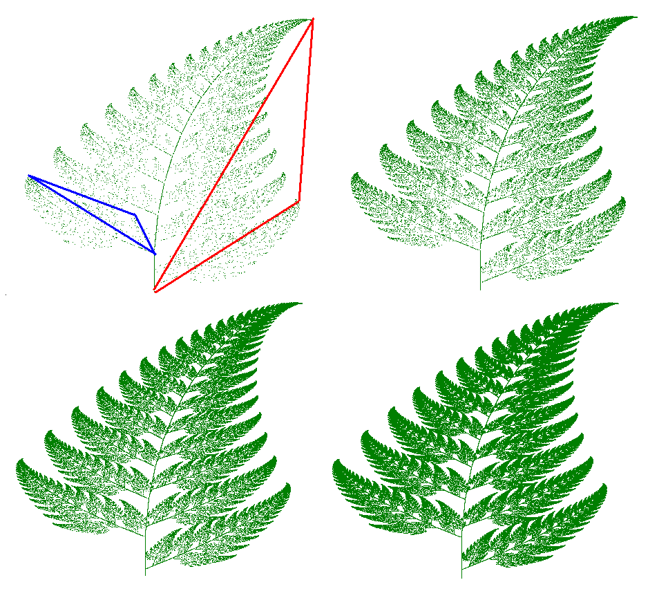 Barnsley's fern illustrates the use of affine translations in an iterated function system (IFS) to create a fractal. The small blue triangle of one half of one "leaflet" is transformed to the large red triangle of one half of one "leaf" or "frond". The "Collage Theorem" provides the other three transformations. The "stem" of the fern image is the first part of the fractal that is quickly completed after only a few iterations. It is an image of the whole set under one of the transformations. This image shows four separate states of the fractal during the course of iterations over time, plotted with VisSim..